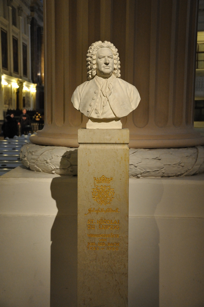 Bust of Johann Sebastian Bach at Nikolaikirche (St. Nicholas Church) in Leipzig, Germany